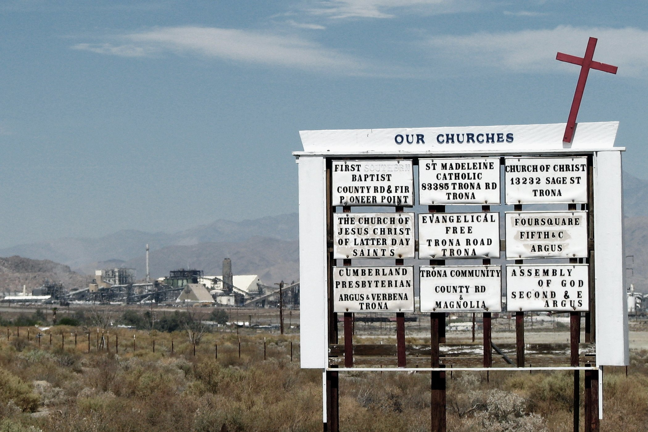 9 Church Signs in Troa, CA